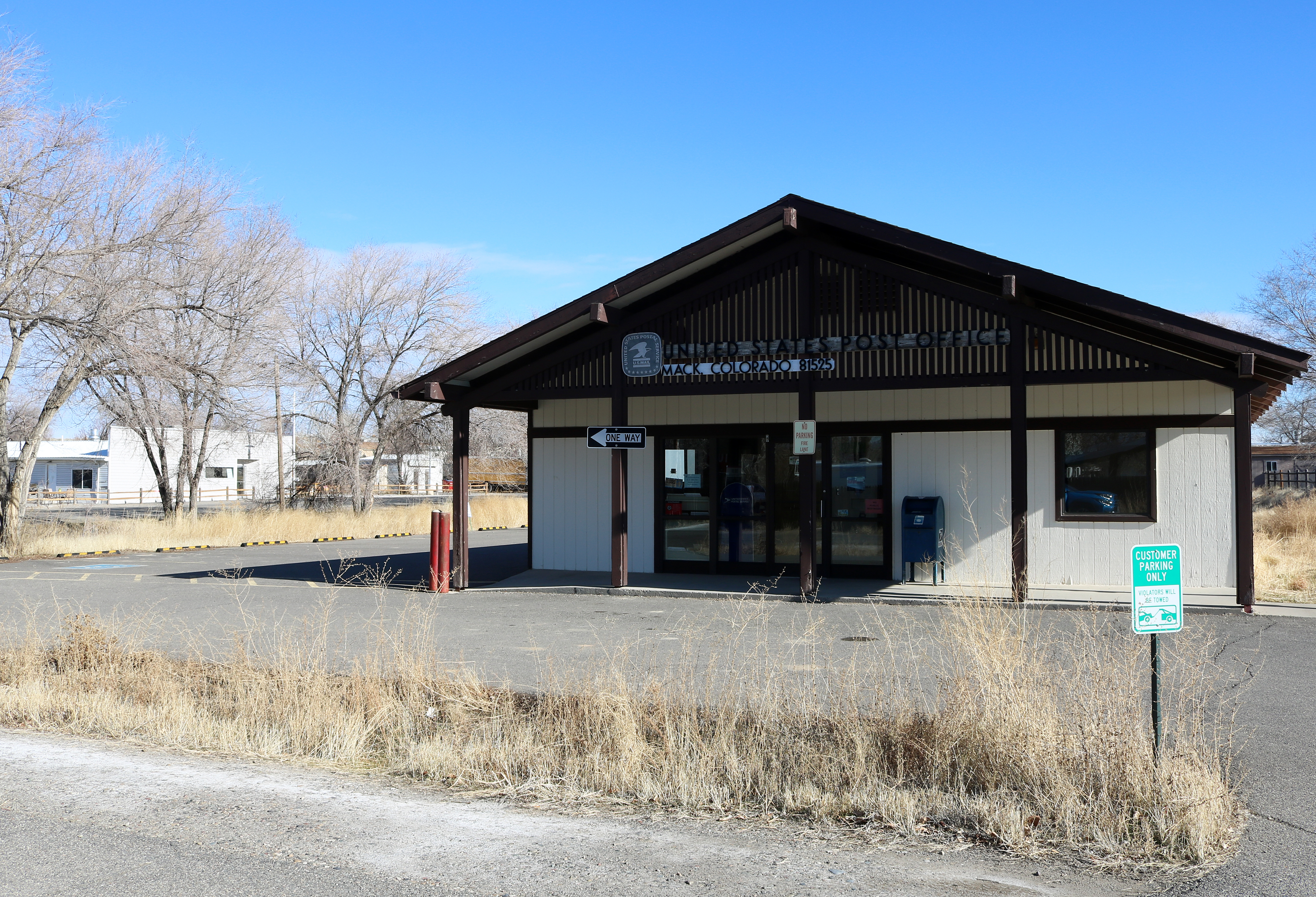 The post office in Mack, Colorado. It's located at 1021 Hotel Circle, Mack, Colorado 81525.